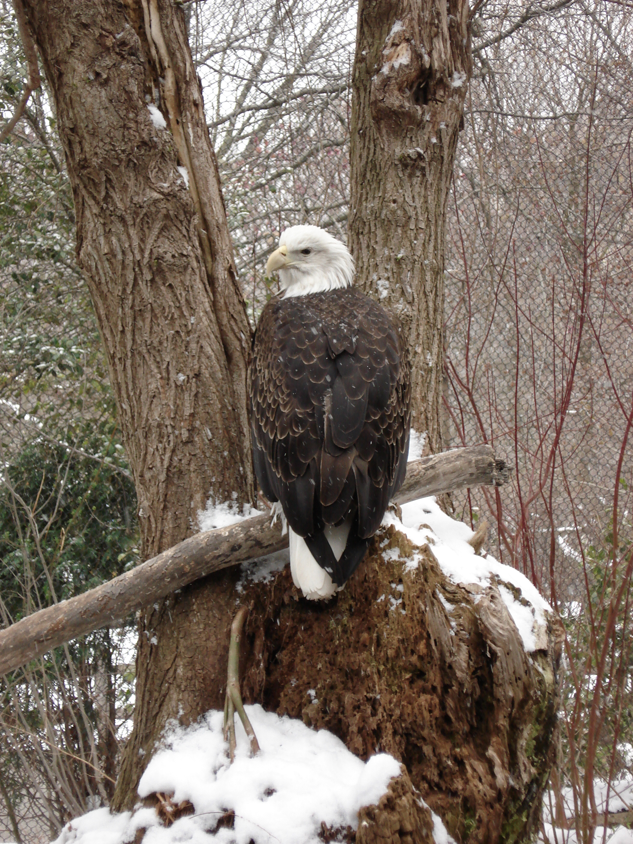 American Bald Eagle found at Wolf Wilderness at the Cleveland metroparks zoo